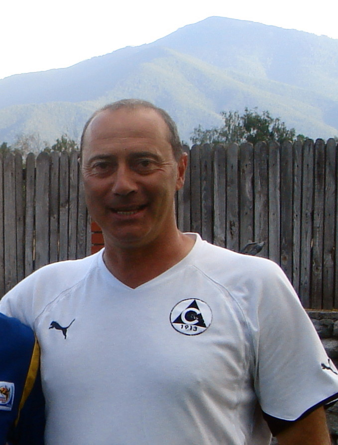 Emil Velev - former bulgarian soccer player, national player, now coach (PFC Slavia Sofia)